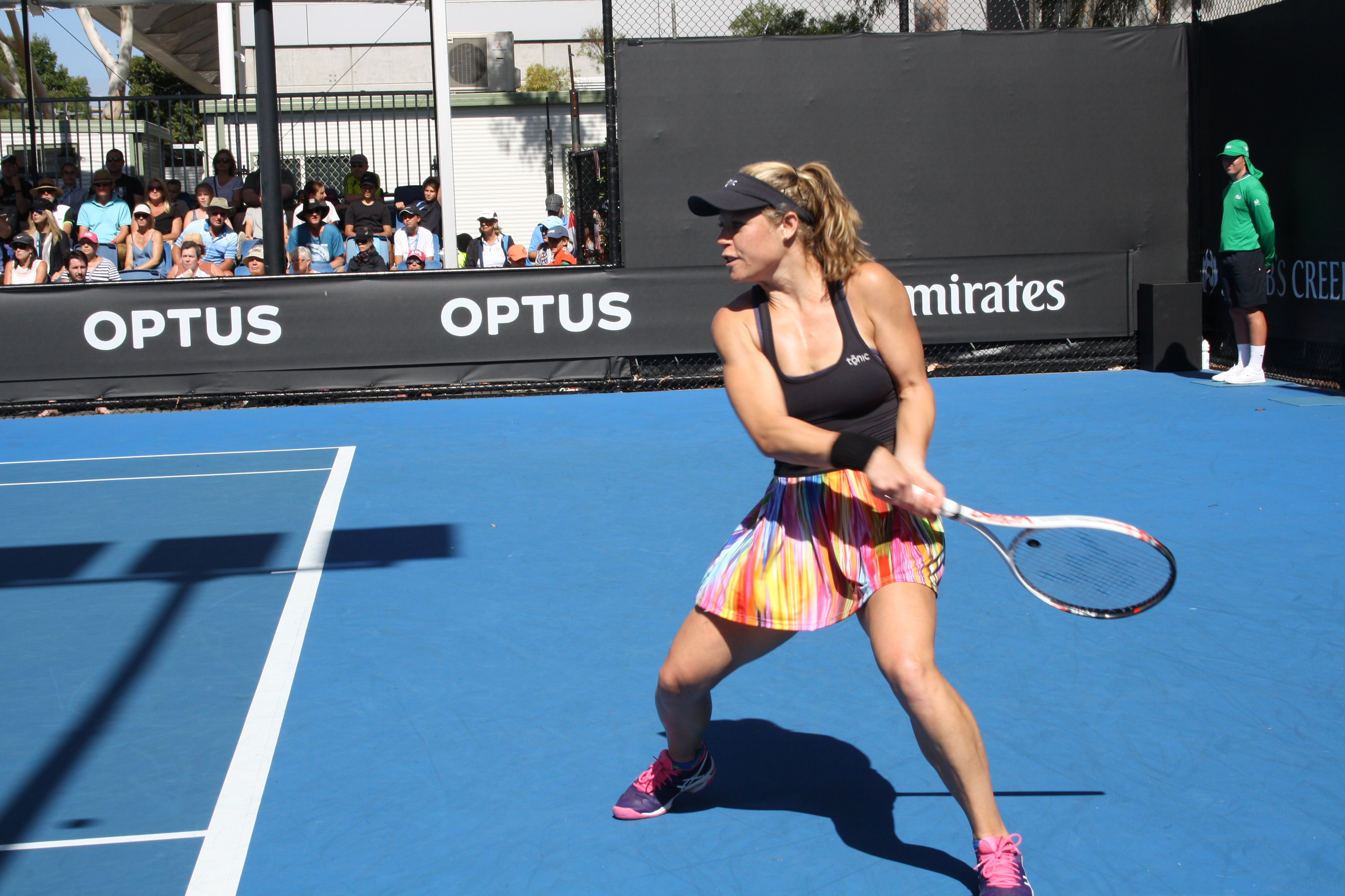 Laura Siegemund, January 2017